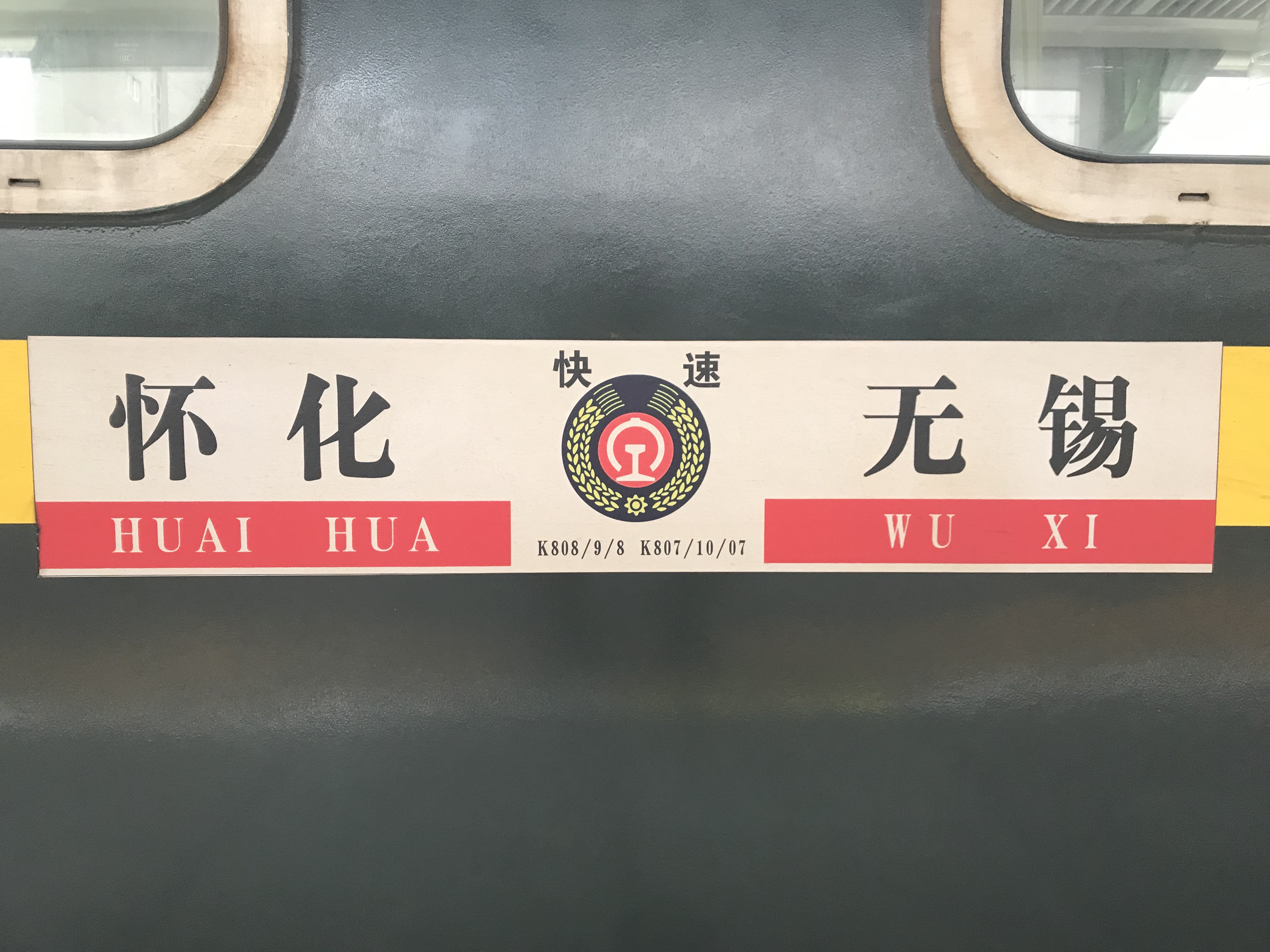 Taken at Hangzhou Station